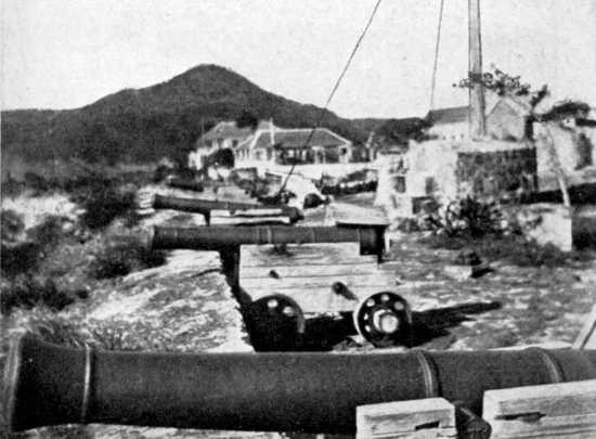 The old guns at Fort Oranje, St. Eustatius. The date 1780 may be seen on the trunnion of the nearest gun.